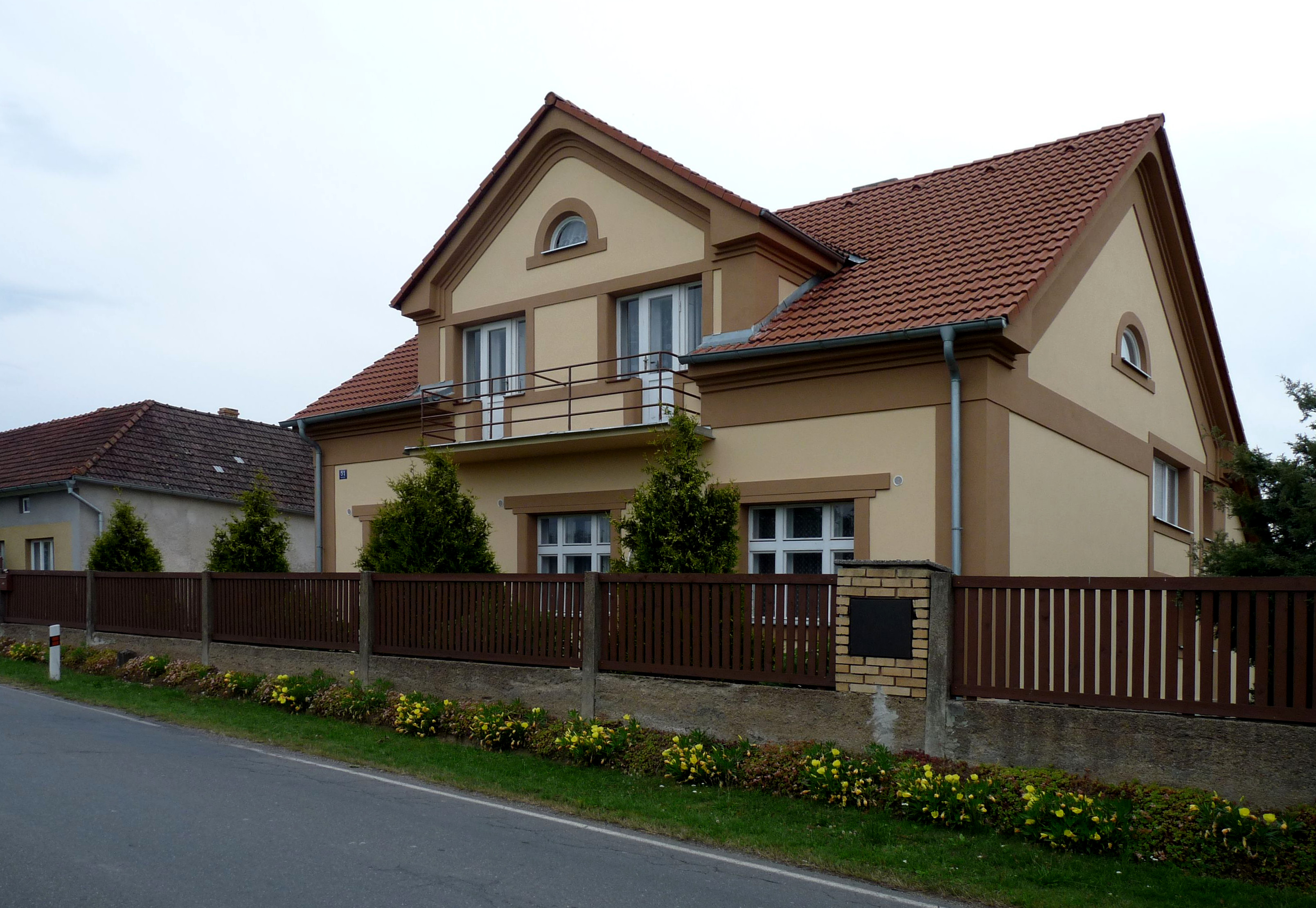 House No 51 in the vilage of Nuzice, České Budějovice District, South Bohemian Region, Czech Republic (part of the town of Týn nad Vltavou).